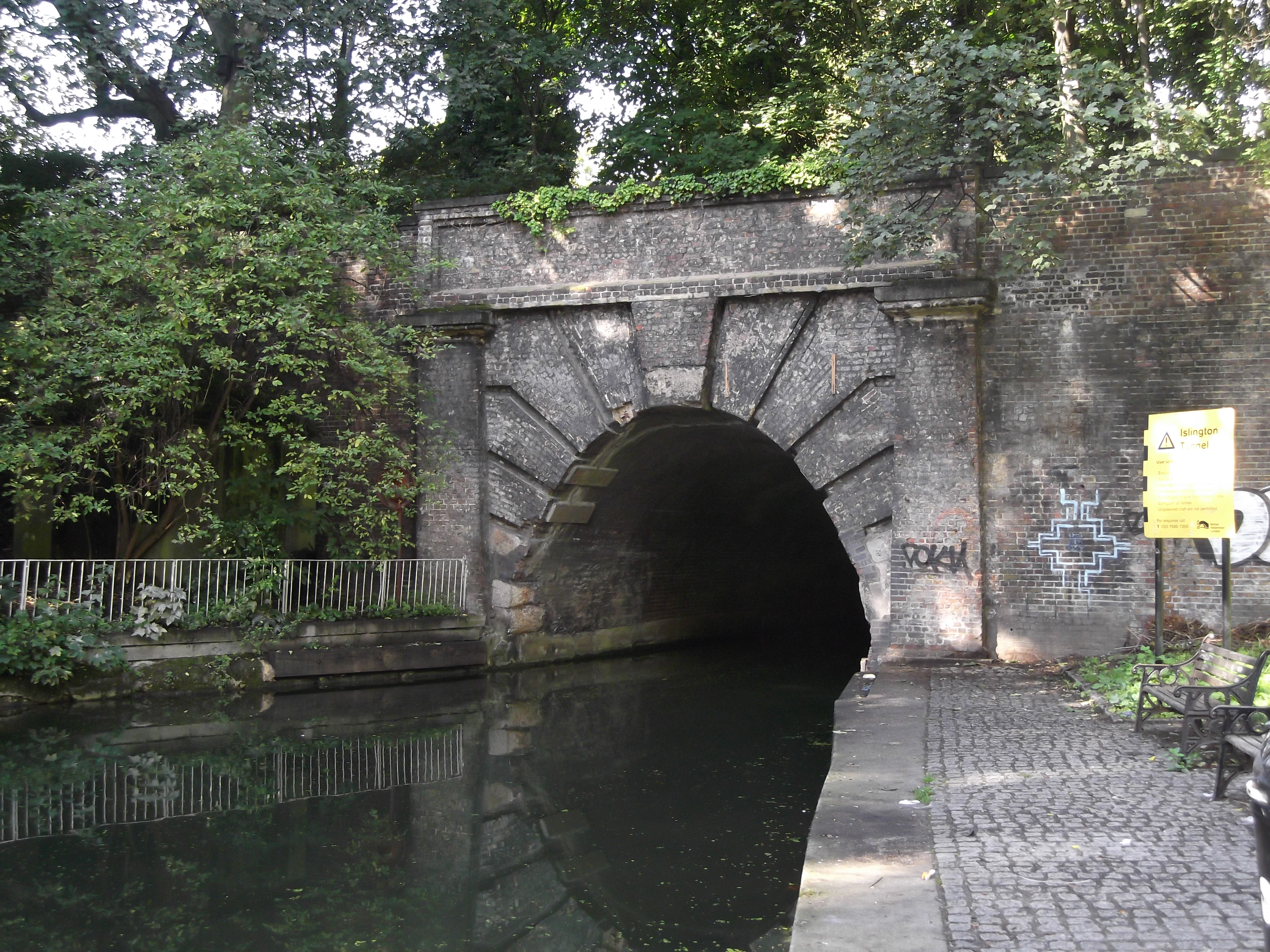 Grade II listed tunnel mouth, 1819-20, the start of a 900m tunnel under Islington.